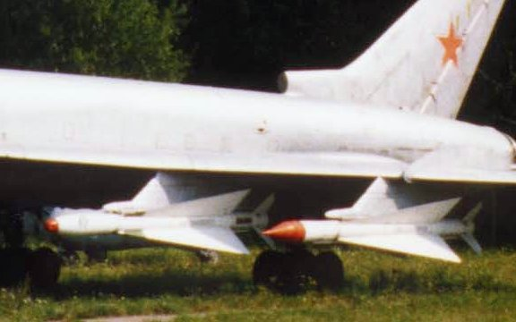 Bisnovat R-4 air-to-air missiles